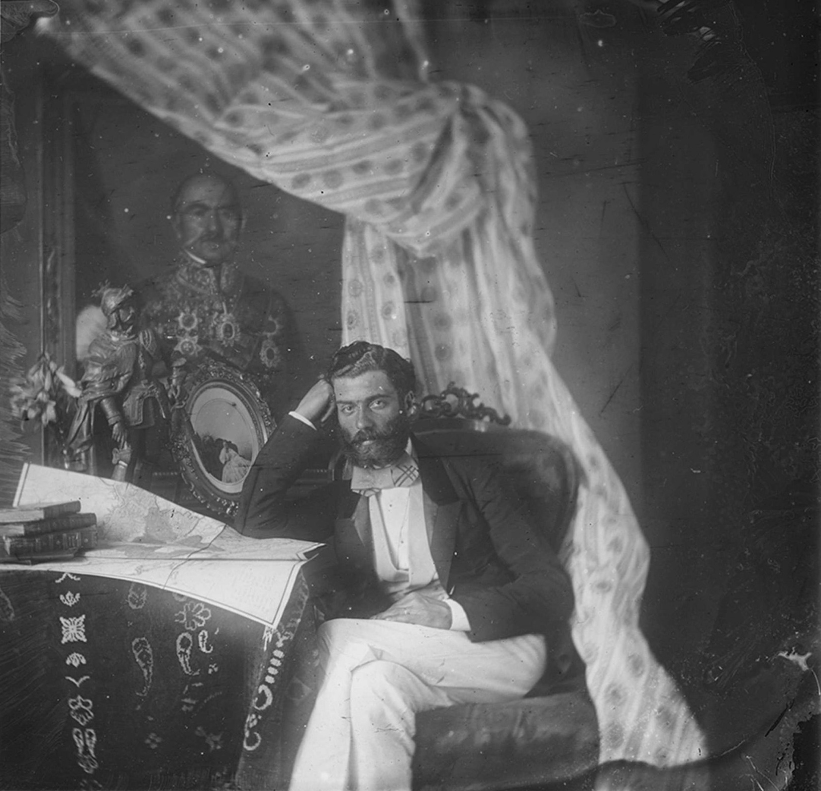 Mihailo Obrenovic III, Prince of Serbia, foto van Anastas Jovanovic (1817-1899)